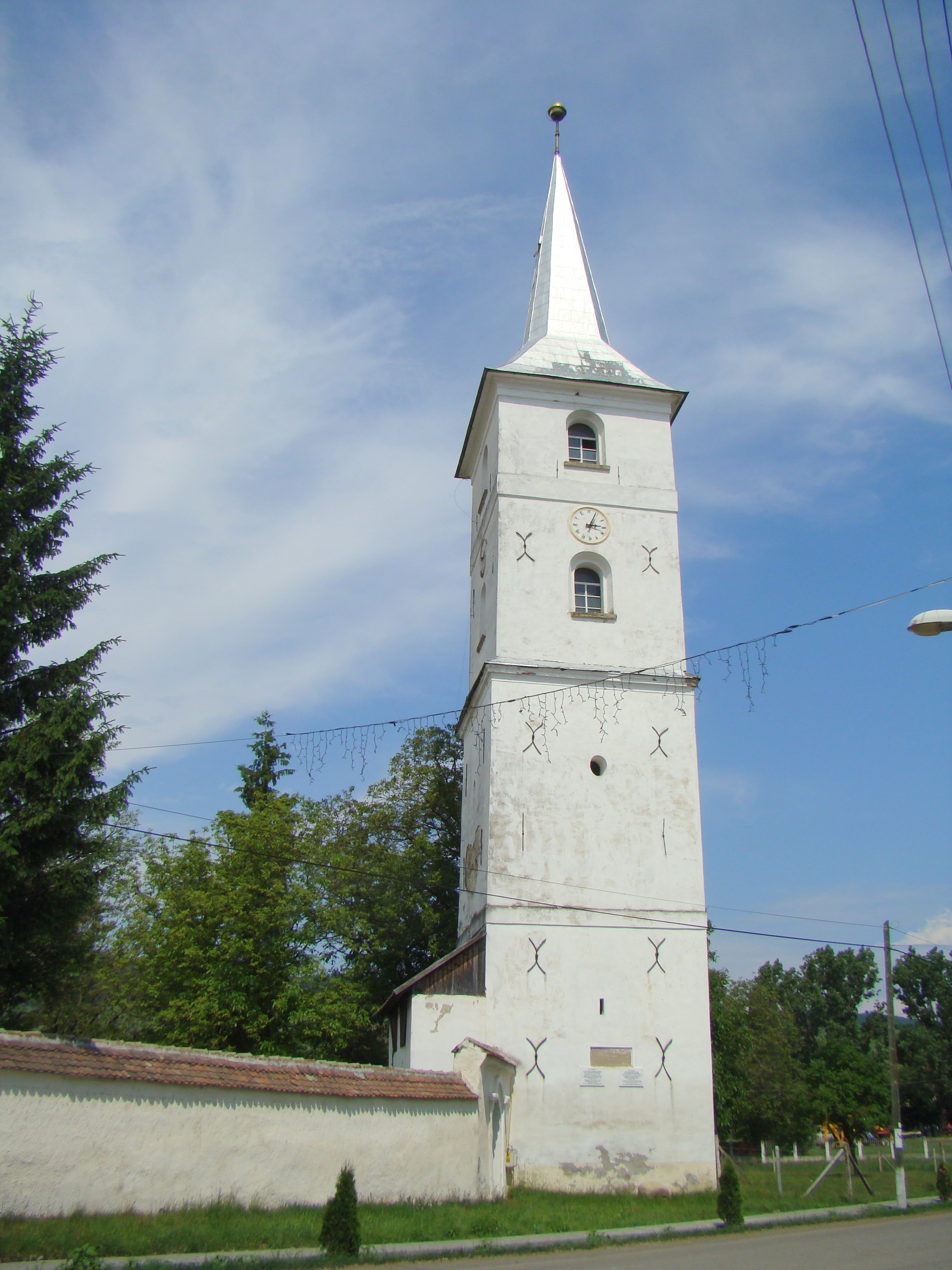 Lutheran church in Batoș, Mureş county, Romania